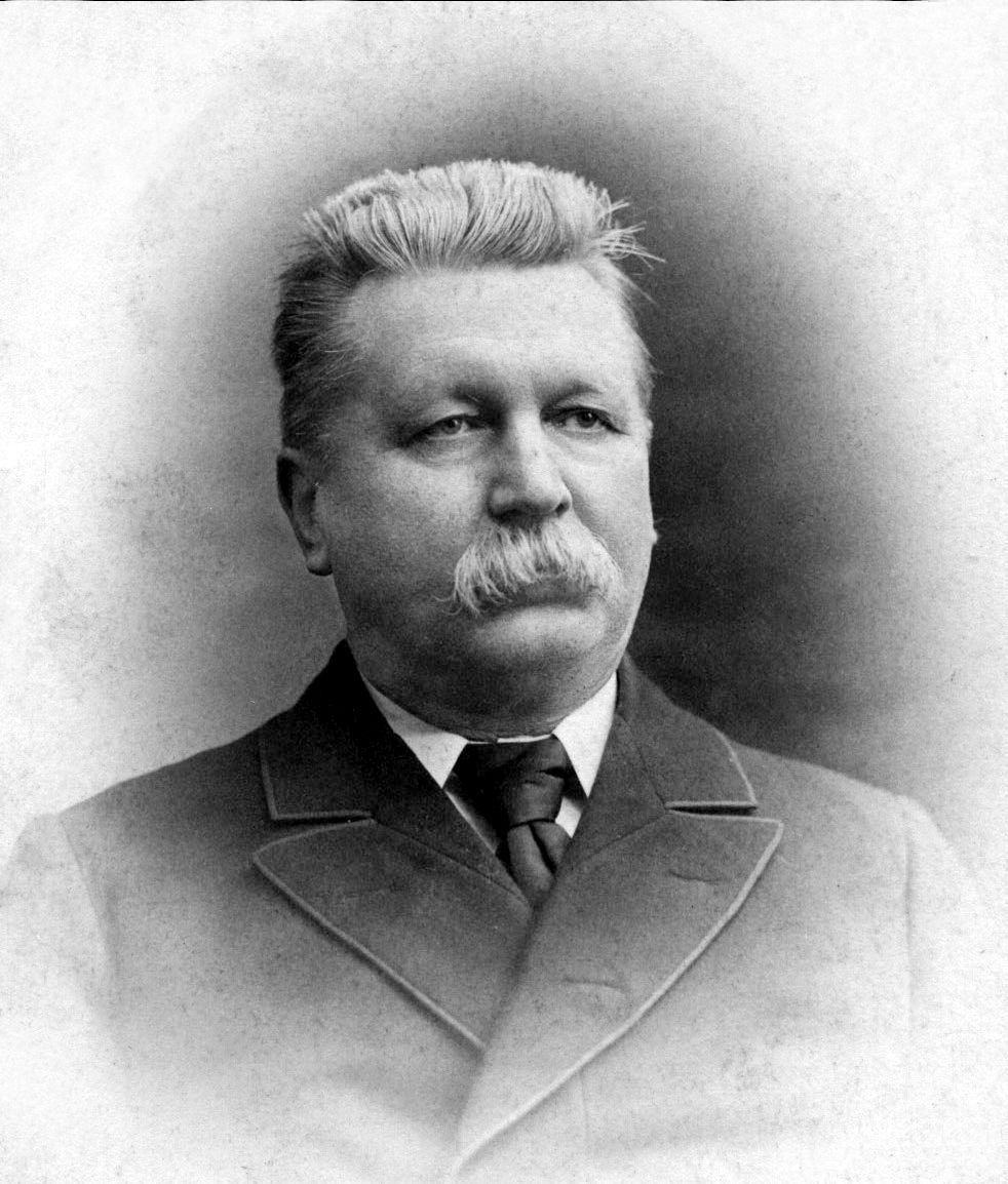 Portrait of George McCall Theal; signed on front: ‘Geo. M. Theal’.